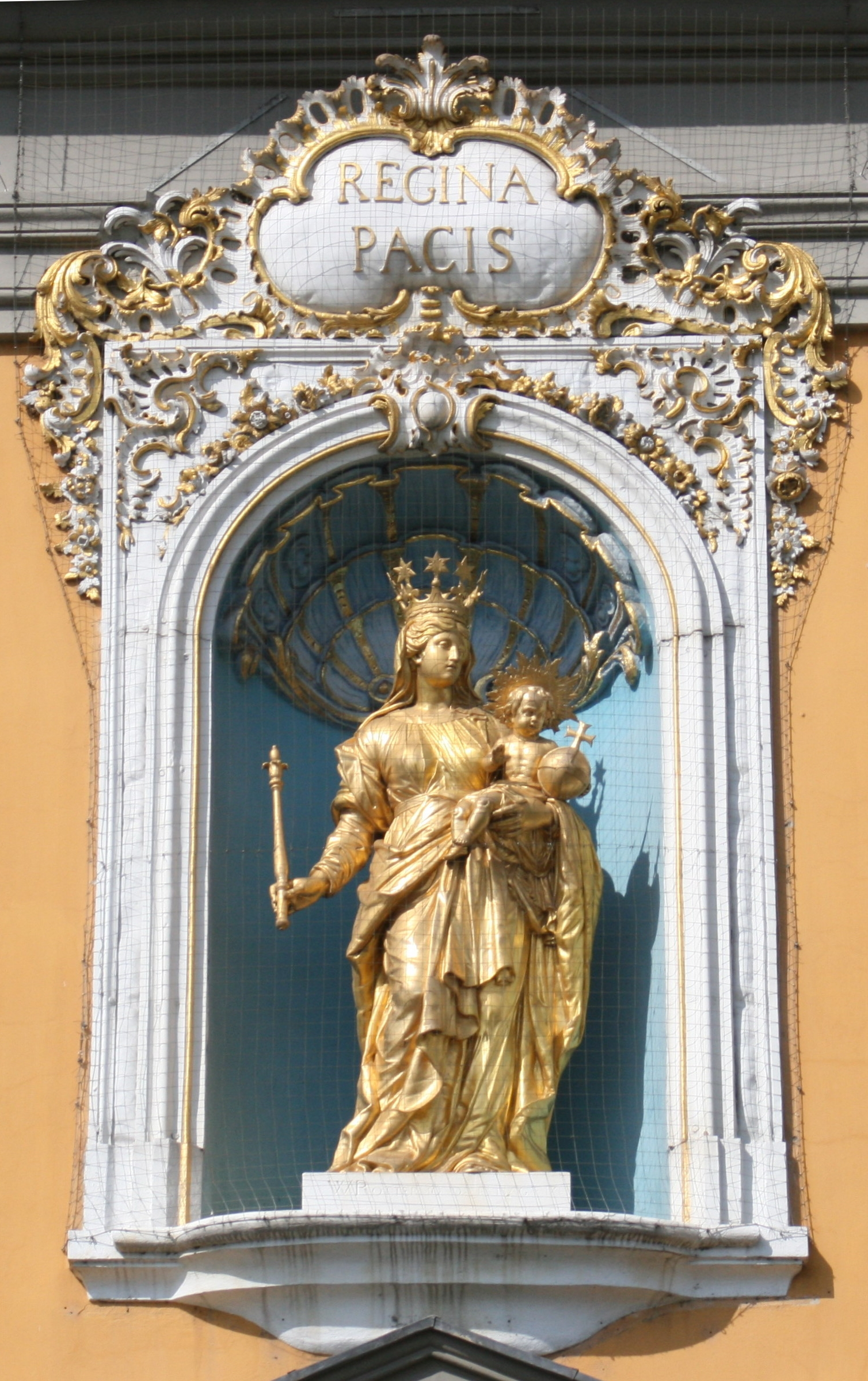 Statue of the Madonna "Regina Pacis" above the south entrance of the main building of the University of Bonn, the former Electoral Palace